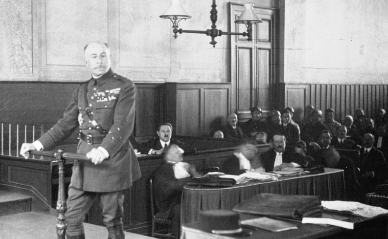 French General Henri Niessel giving testimony at the retrial for treason of his former subordinate, Jacques Sadoul, at a military court in Orléans. Sadoul is also pictured, in the defendants' box.